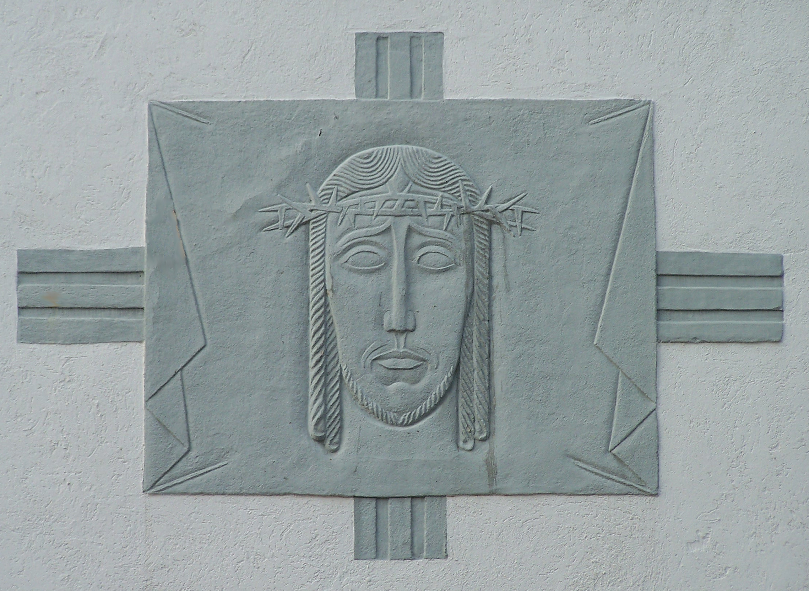 presentation of the Veil of Veronica by Arnold Hensler at the southern side of the tower of Holy Cross Church in Frankfurt am Main-Bornheim symbolising the four evangelists, seen from south